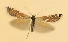 Stainton’s Natural History of the Tineina (1855–1873): Glyphipterix simpliciella